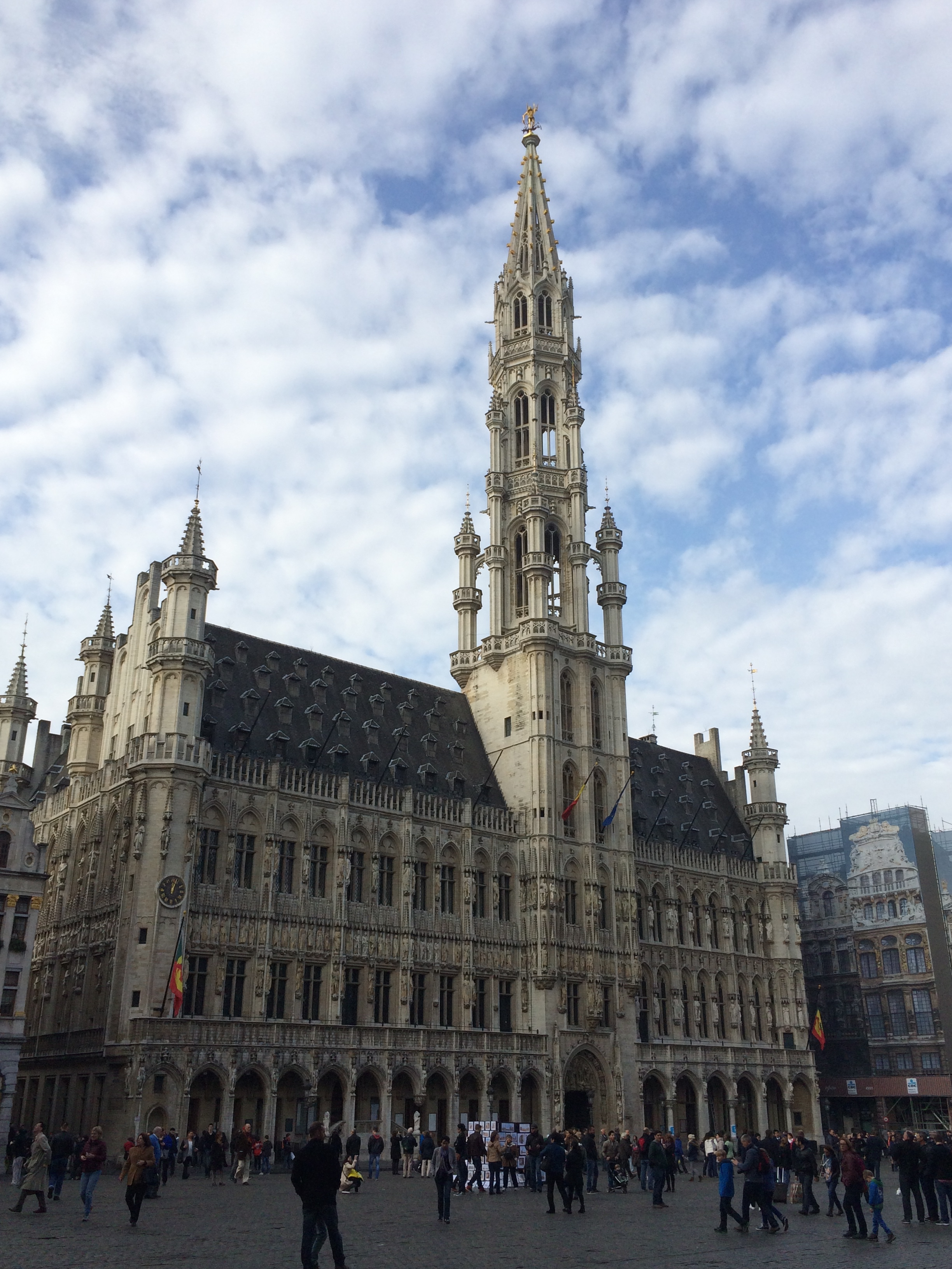 Brussels town hall